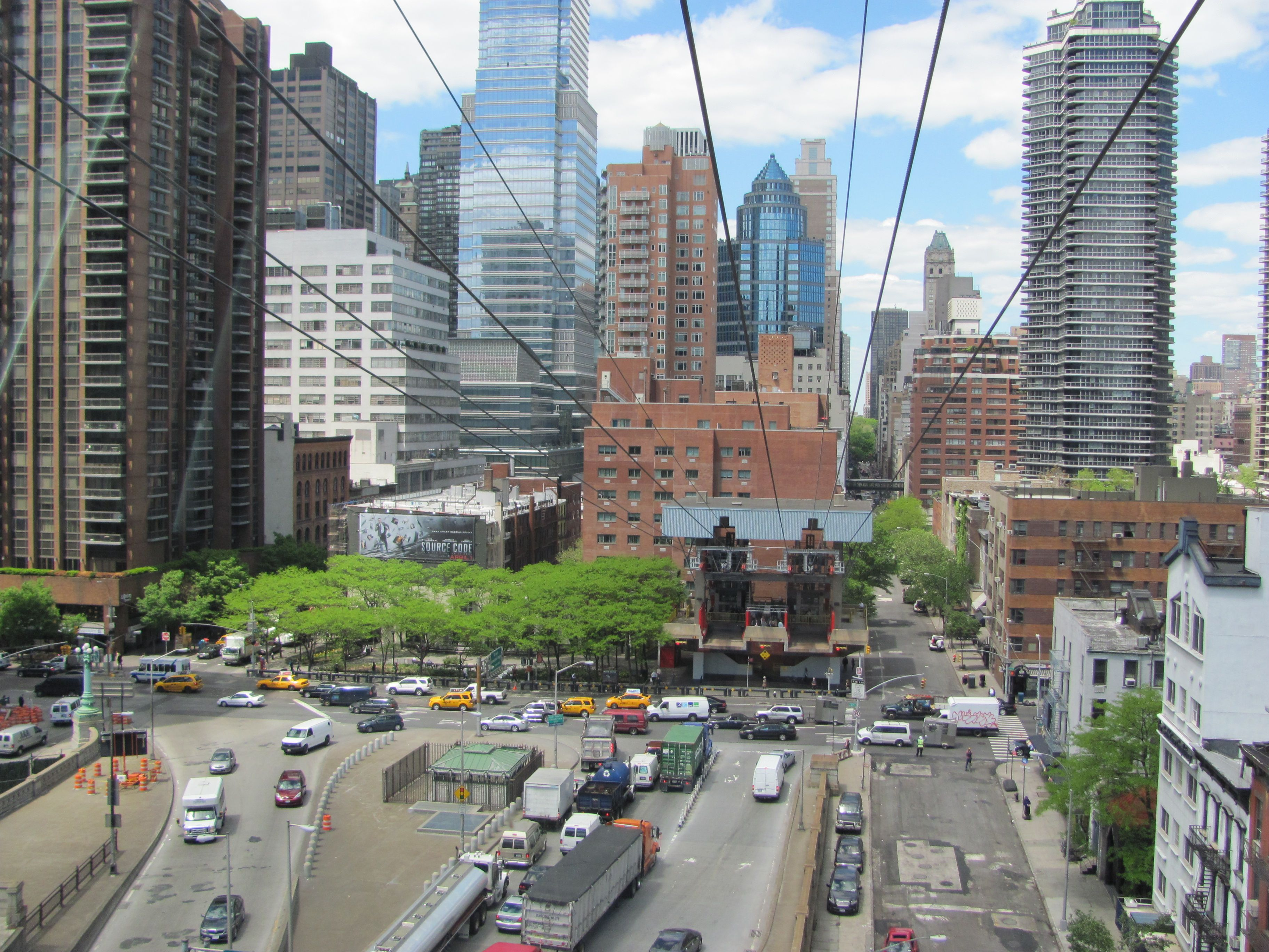 Roosevelt Island Tramway